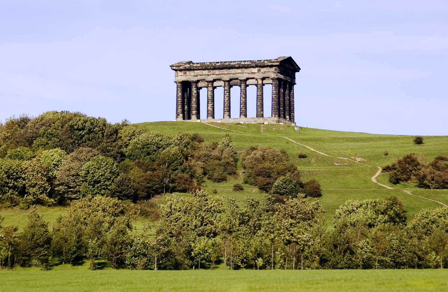 Penshaw Monument in Sunderland, Tyne and Wear. View from Herrington Country Park